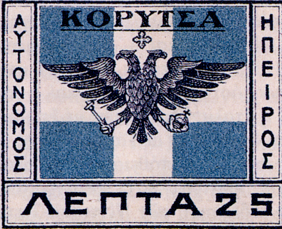 25 lepta postage stamp issued on 28 August, 1914, by the authorities of the Autonomous Republic of Northern Epirus in Korytsa/Korca with the flag of Northern Epirus and with the printed word "ΚΟΡΥΤΣΑ".